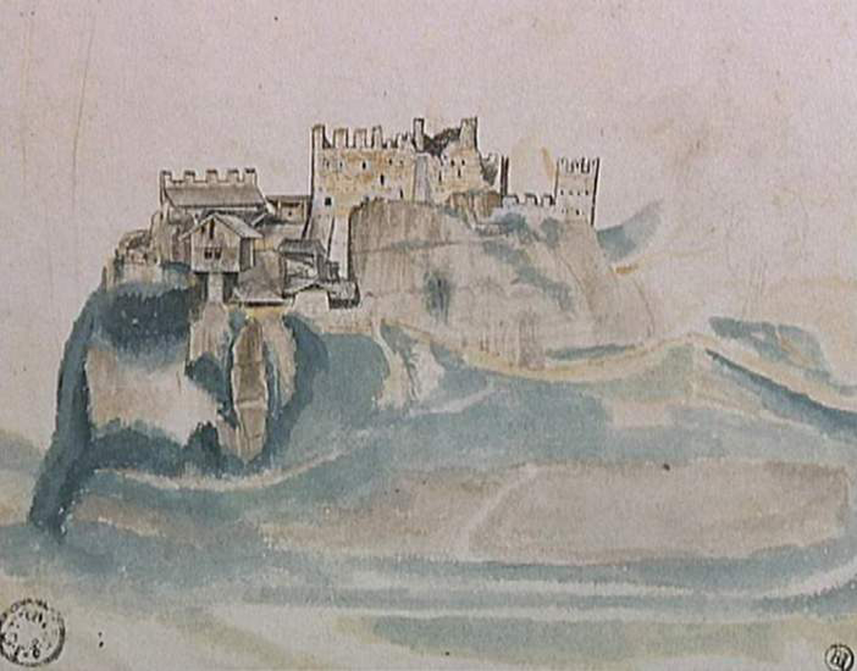 Watercolor Alpin Castel Albrecht Dürer (1495)